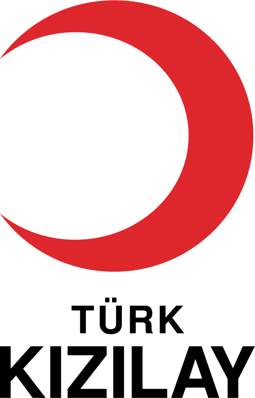 This is the emblem of the Turkish Red Crescent